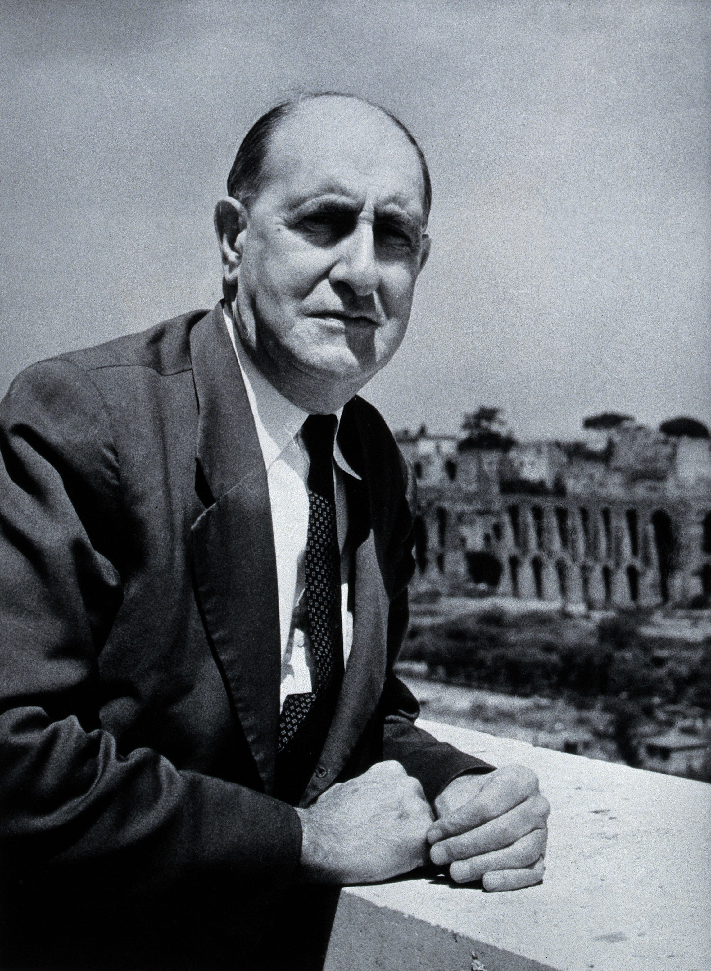 Sir Thomas Dalling. Photograph. Iconographic Collections Keywords: portrait photographs